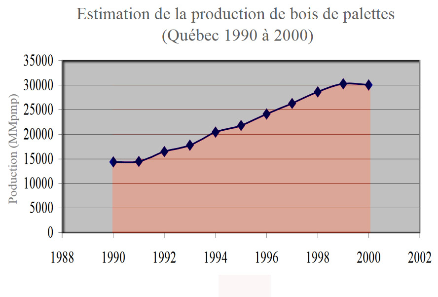 Chart showing wood pallet production in Quebec: doubling in 8 years, from 1991 to 1999.